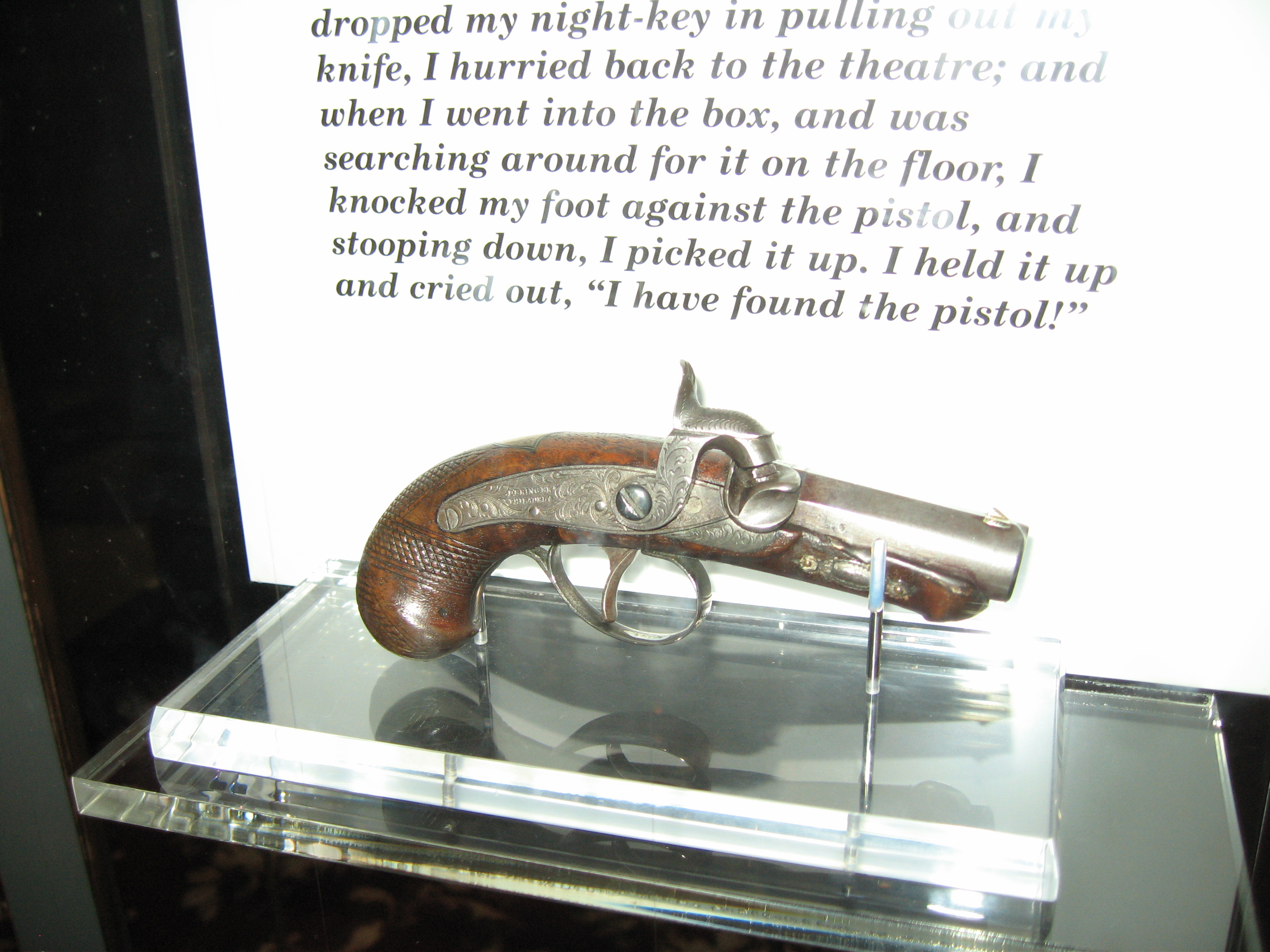 The gun Booth used to kill Lincoln. In the Ford's Theatre basement museum